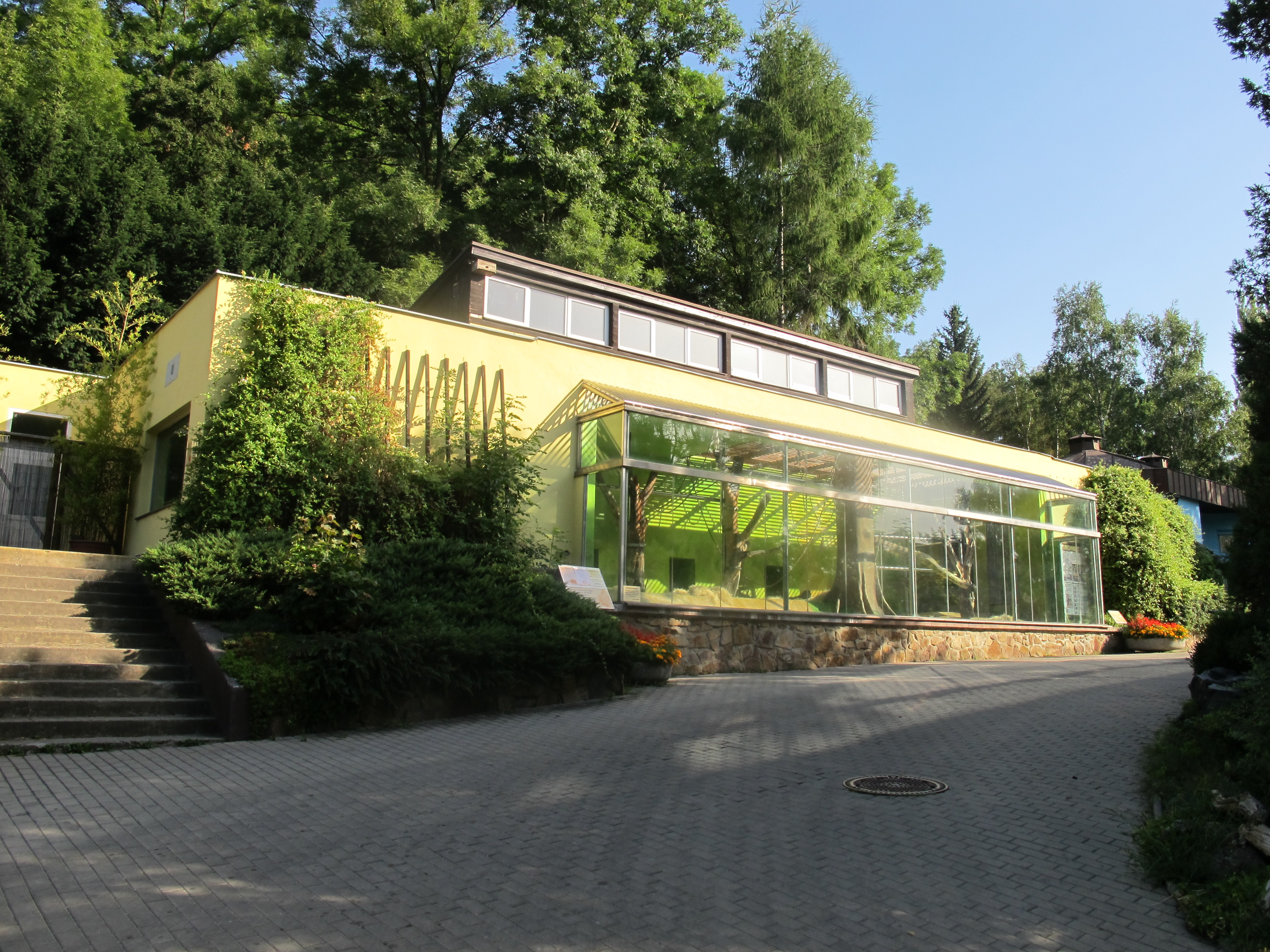 Borneo House for bornean orangutan in Ústí nad Labem Zoo.